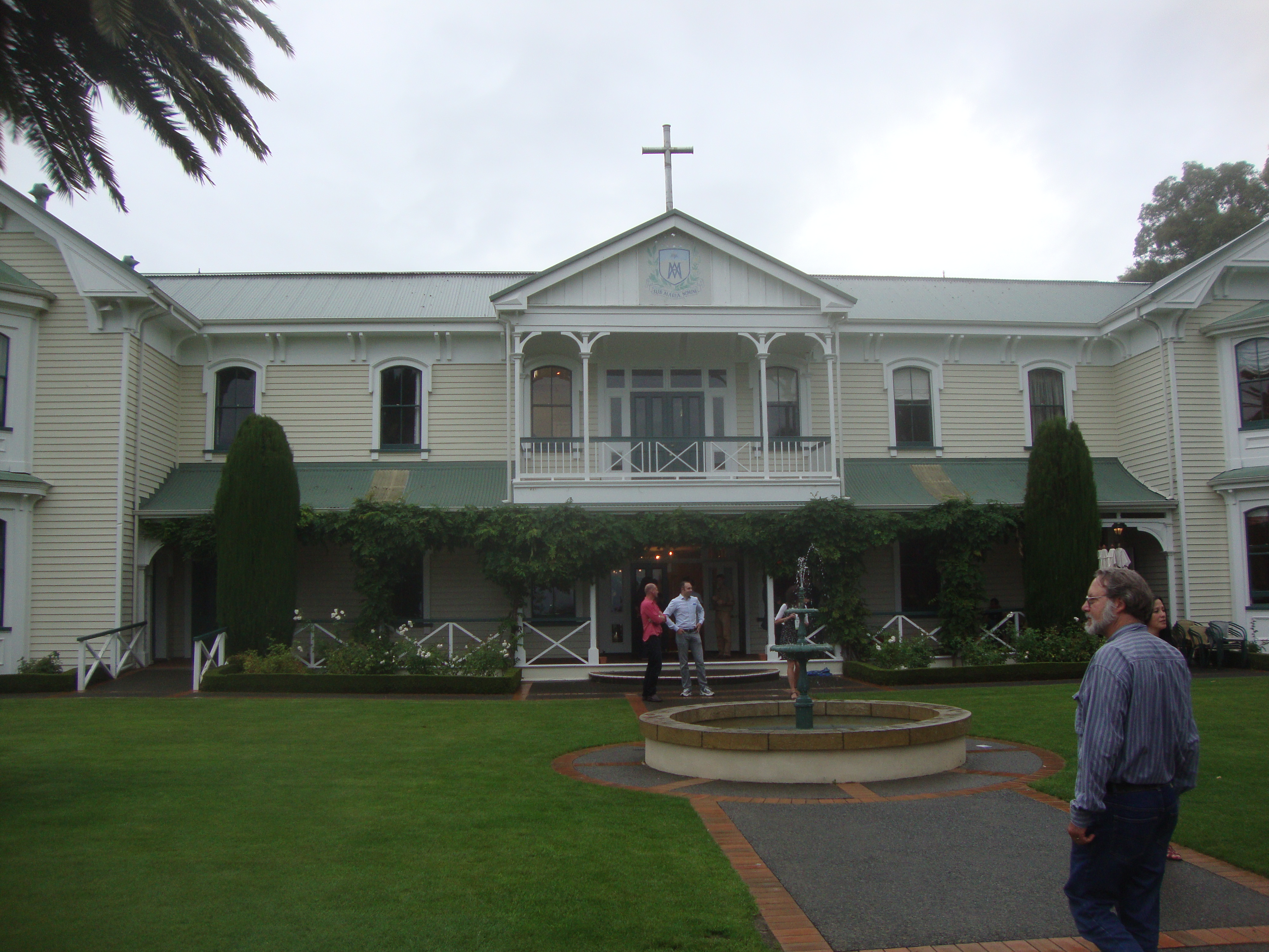 Mission Estate Winery building in February 2012.